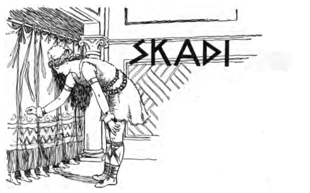 No caption, but the illustration is put beside a head title which reads "Skadi", indicating that the illustration depicts Skaði choosing her husband.